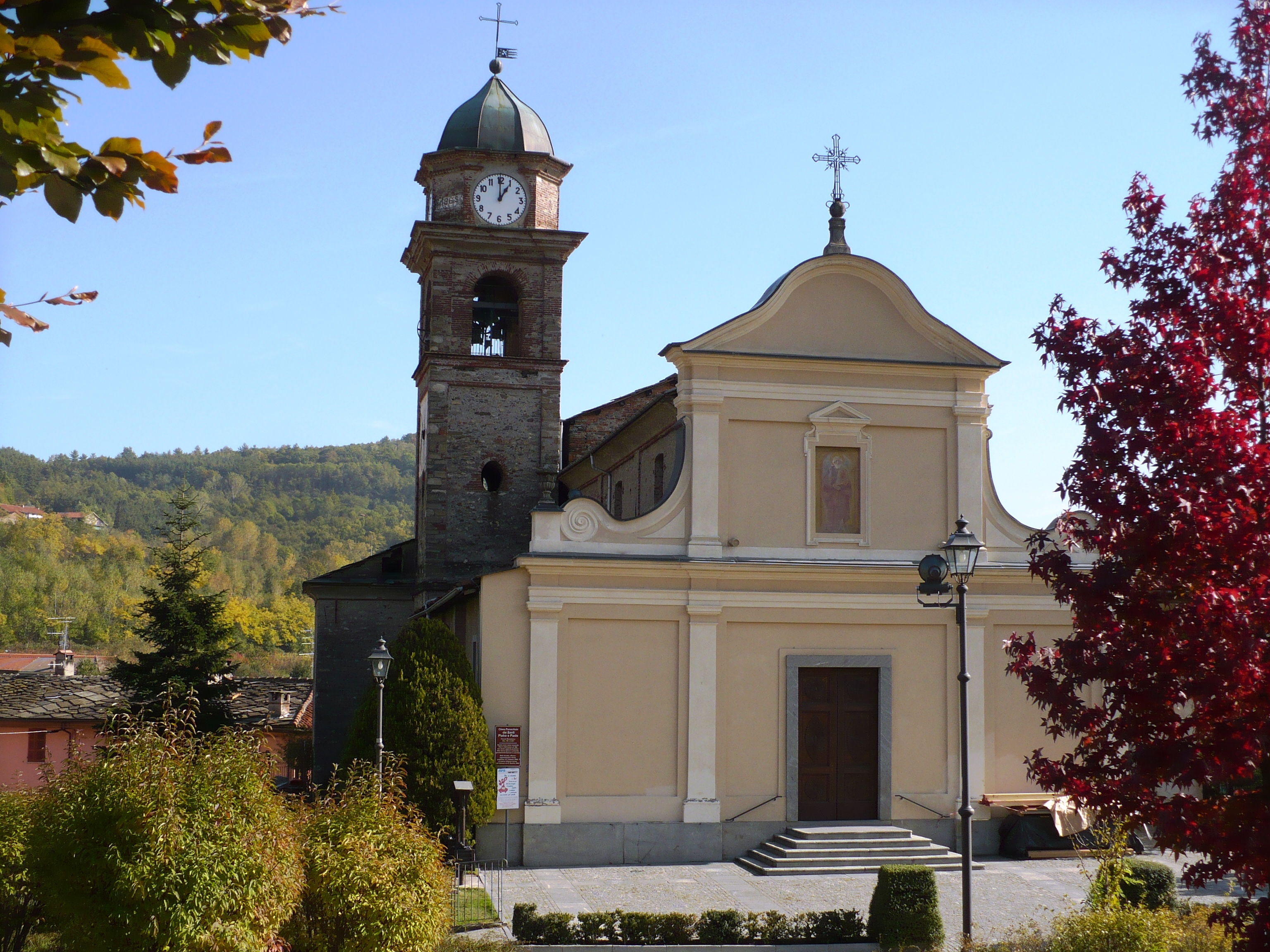 Church - San Pietro Val Lemina - Province of Turin - Italy